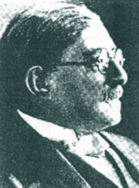 Mahmud Tarzi, politician of Afghanistan and a famous journalist.